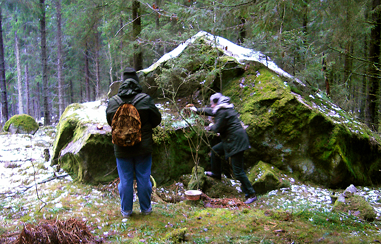 Forn Sed: Disablót at boulder. The picture is taken at a Disablót held by the Gothenburg kindred Godthiod at 7th February 2009 at a boulder called Storbuckasten (i.e. approx. The Big Buckle Stone or The Big Bulging Stone) in Sörby parish, Vilske hundred, Falköping municipality, Västergötland, Västra Götaland, Sweden. Disablót is a Norse ceremony honoring Goddesses, Ancestresses, Disir, Fylgjas, and children yet to be born, and it is corresponding to the Celtic Imbolc. The boulder is 8×5 meter and 3.5 meter high. In the picture we see two participant doing their personal offerings at the boulder. The offereings consisted mainly of fruits, sandwiches, and sweets. Note that no cult images was used at the ceremony.